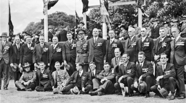 AWM caption:VICTORIA CROSS WINNERS FROM THE BOER WAR AND WORLD WAR 1 WHO GATHERED TO MARCH IN THE SYDNEY ANZAC DAY PARADE. BACK ROW LEFT TO RIGHT: LIEUTENANT (LIEUT.) J. ROGERS, SERGEANT (SGT) R. R. INWOOD, BRIGADIER A. S. BLACKBURN, SGT J. W. WHITTLE, SGT S. R. MCDOUGALL, MAJOR E. T. TOWNER, CAPTAIN (CAPT) A. C. BORELLA, CAPT. G. M. INGRAM, STAFF SERGEANT (S.SGT) W. PEELER, LIEUT. J. J. DWYER, CAPT J. HAMILTON, PRIVATE J. CARROLL, S.SGT G. J. HOWELL. FRONT ROW: SGT H. DALZIEL, MAJOR W. RUTHVEN, LIEUT. C. W. K. SADLIER, CAPT G. CARTWRIGHT, PTE J. P. WOODS, SGT T. CALDWELL, MAJOR W. D. JOYNT, SGT P. C. STATTON, SGT A. D. LOWERSON, SGT T. L. AXFORD.